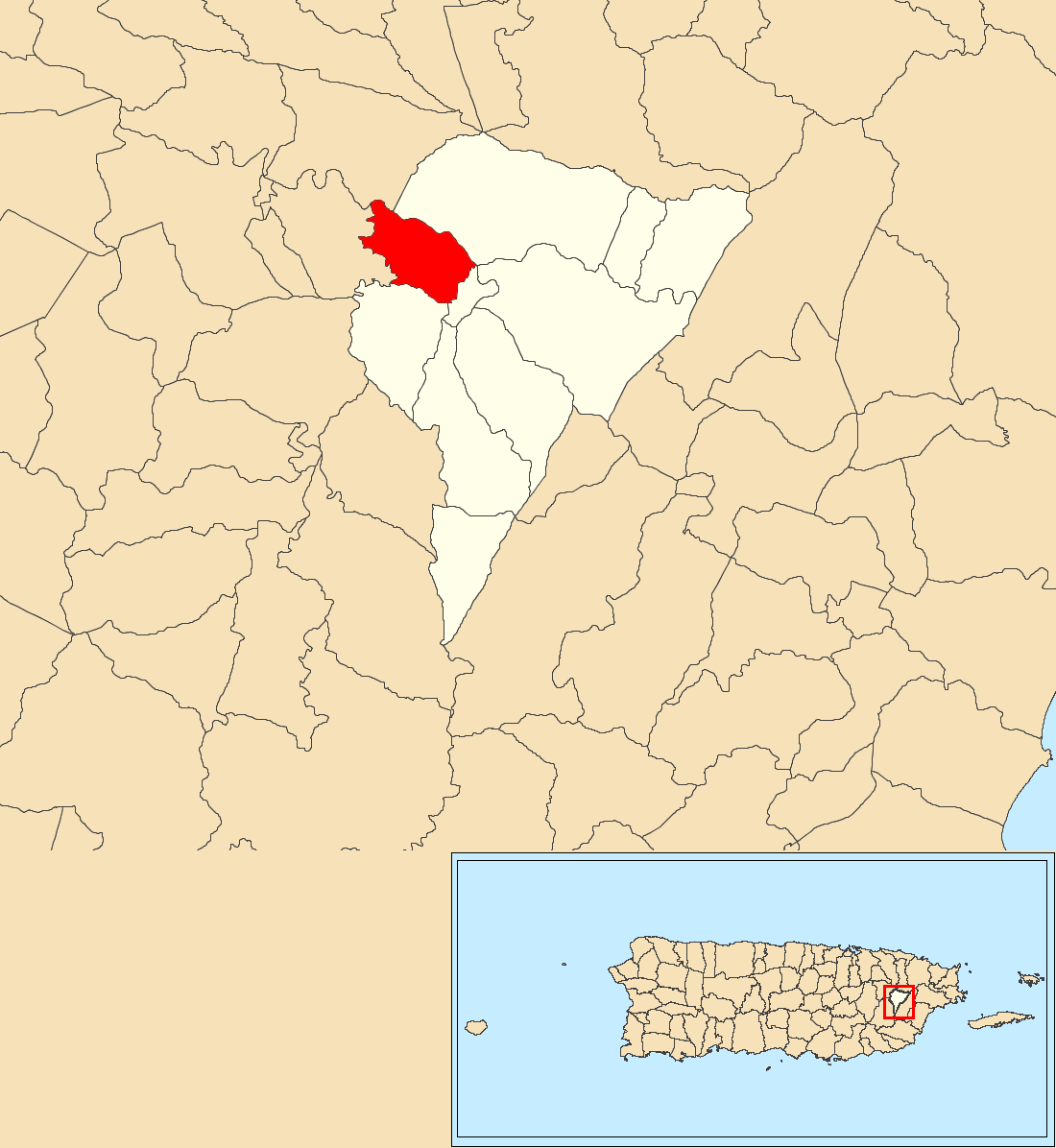 Mamey, Juncos, Puerto Rico locator map